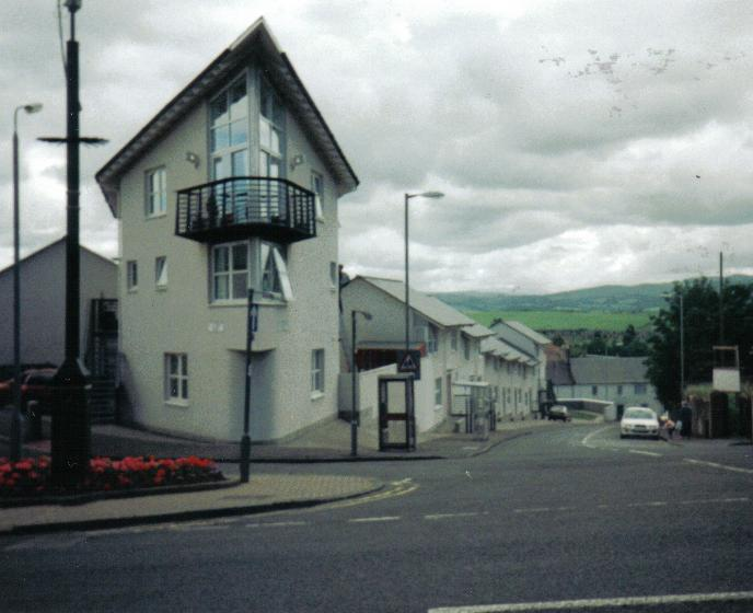 New housing on the site of St. Cuthbert's shoe factory in Maybole, South Ayrshire, Scotland.